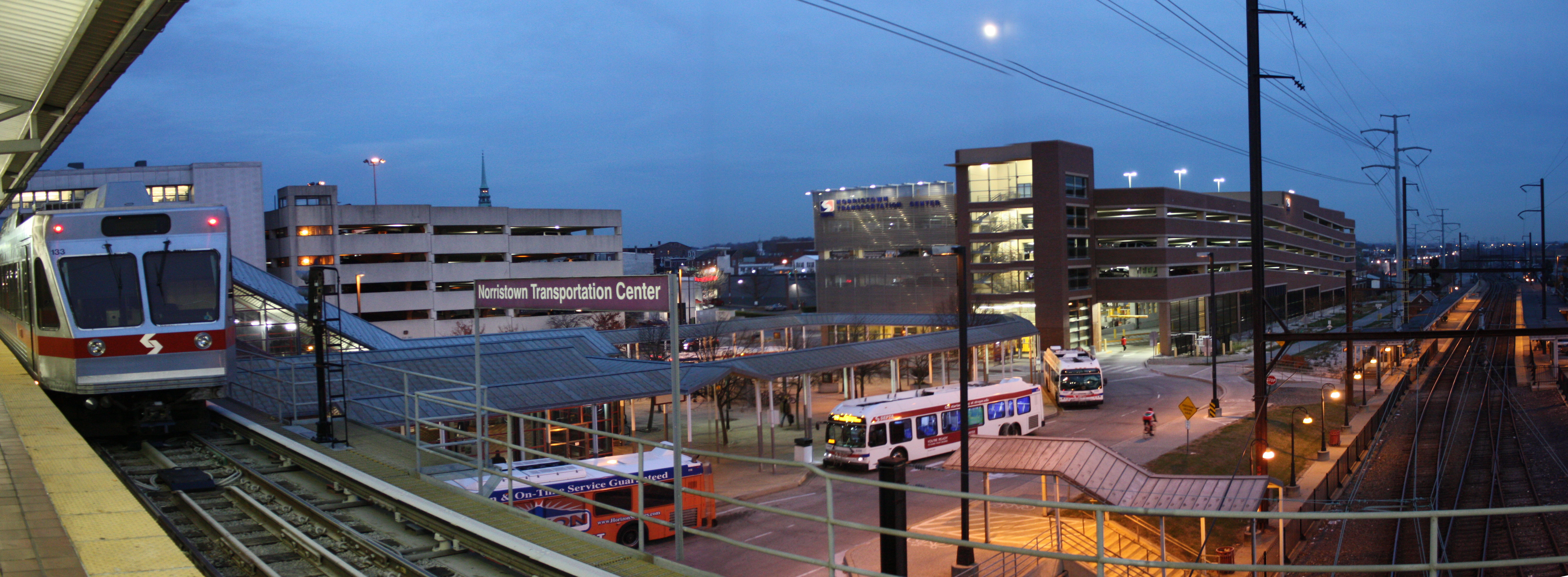 Norristown Transportation Center after a long one-day trip on all of the regional rails and the high speed line.